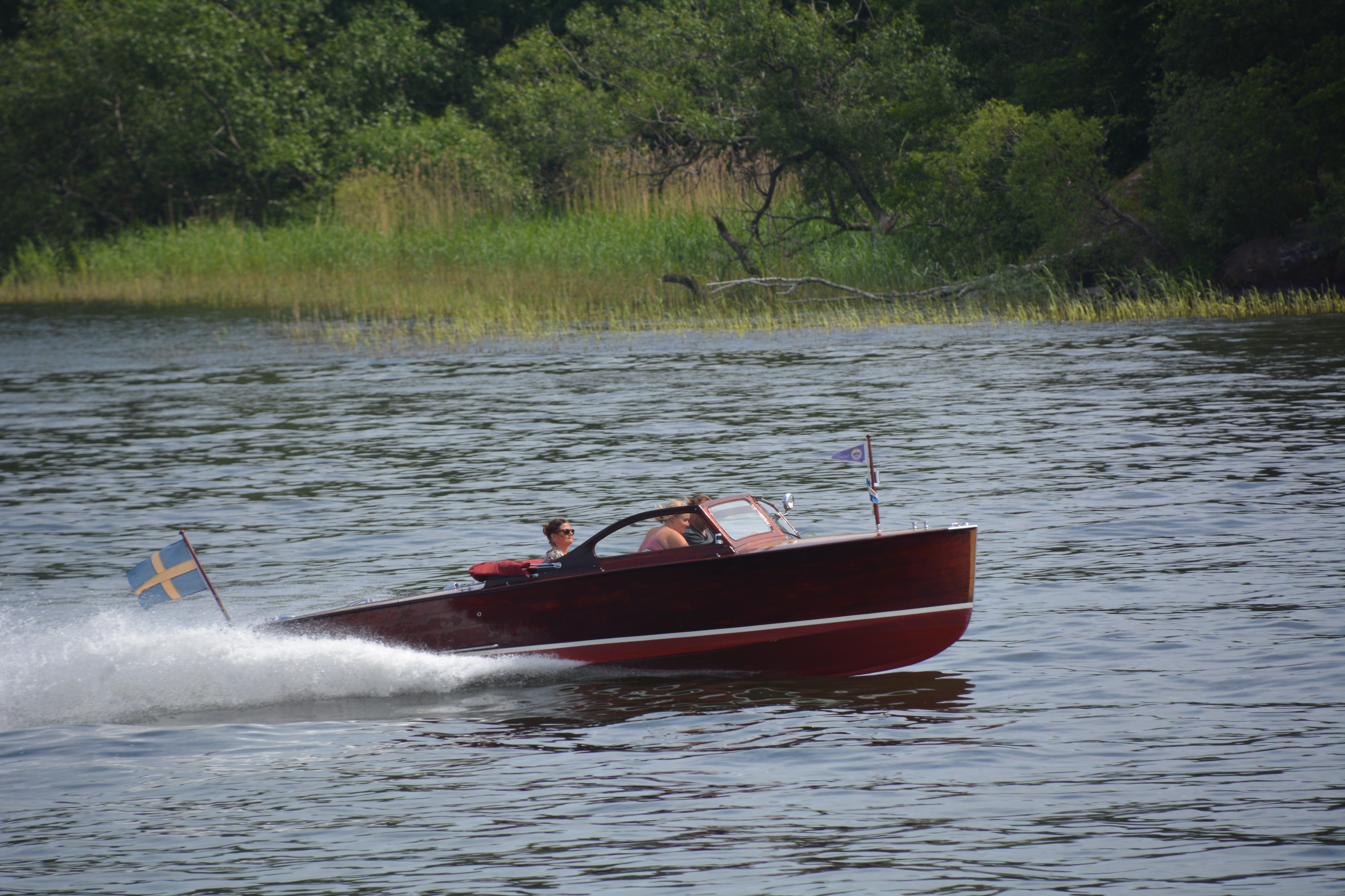 Essbåten Wira III at Lake Mälaren, constructed by Gideon Forslund 1933